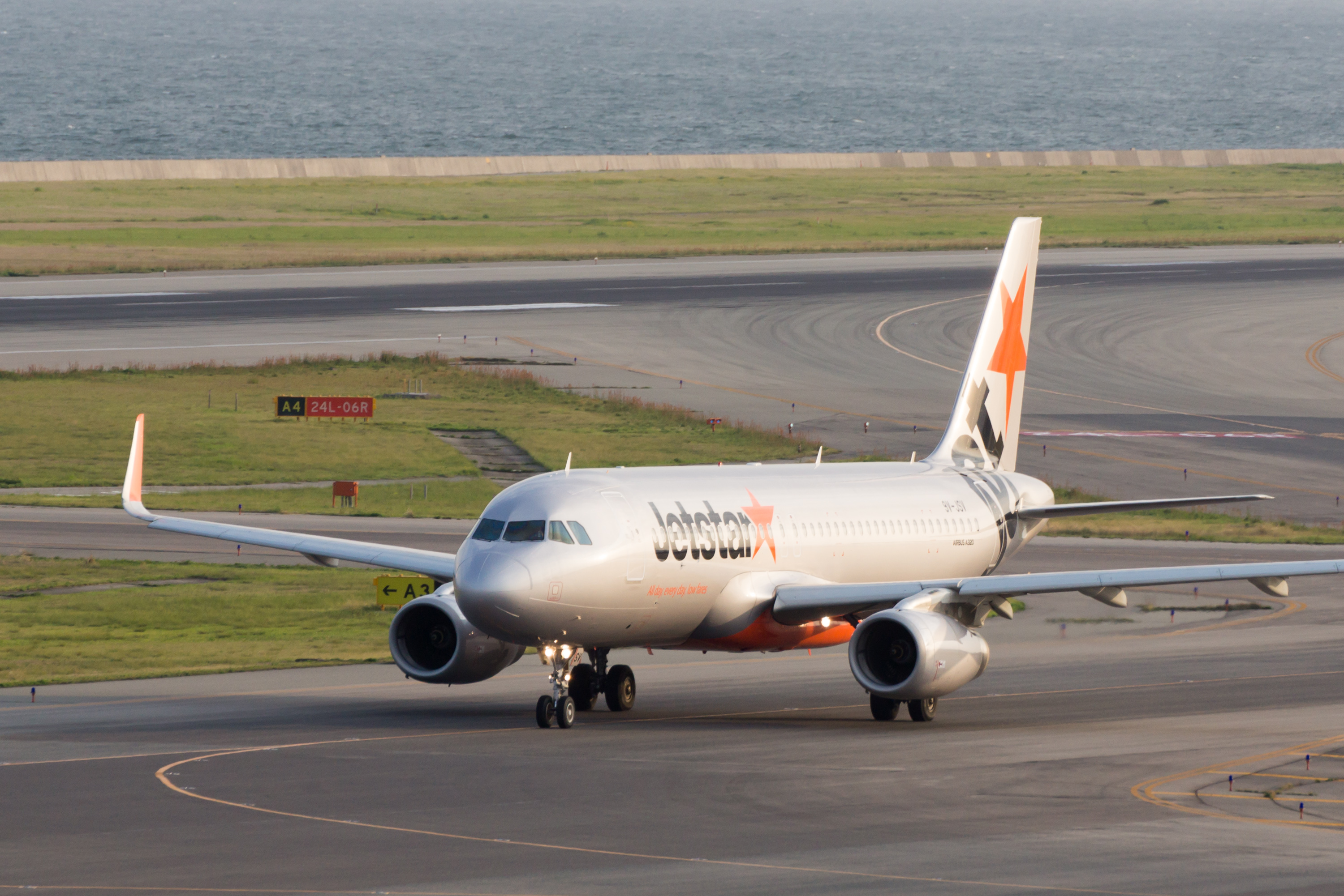 Jetstar Asia Airways Airbus A320-232